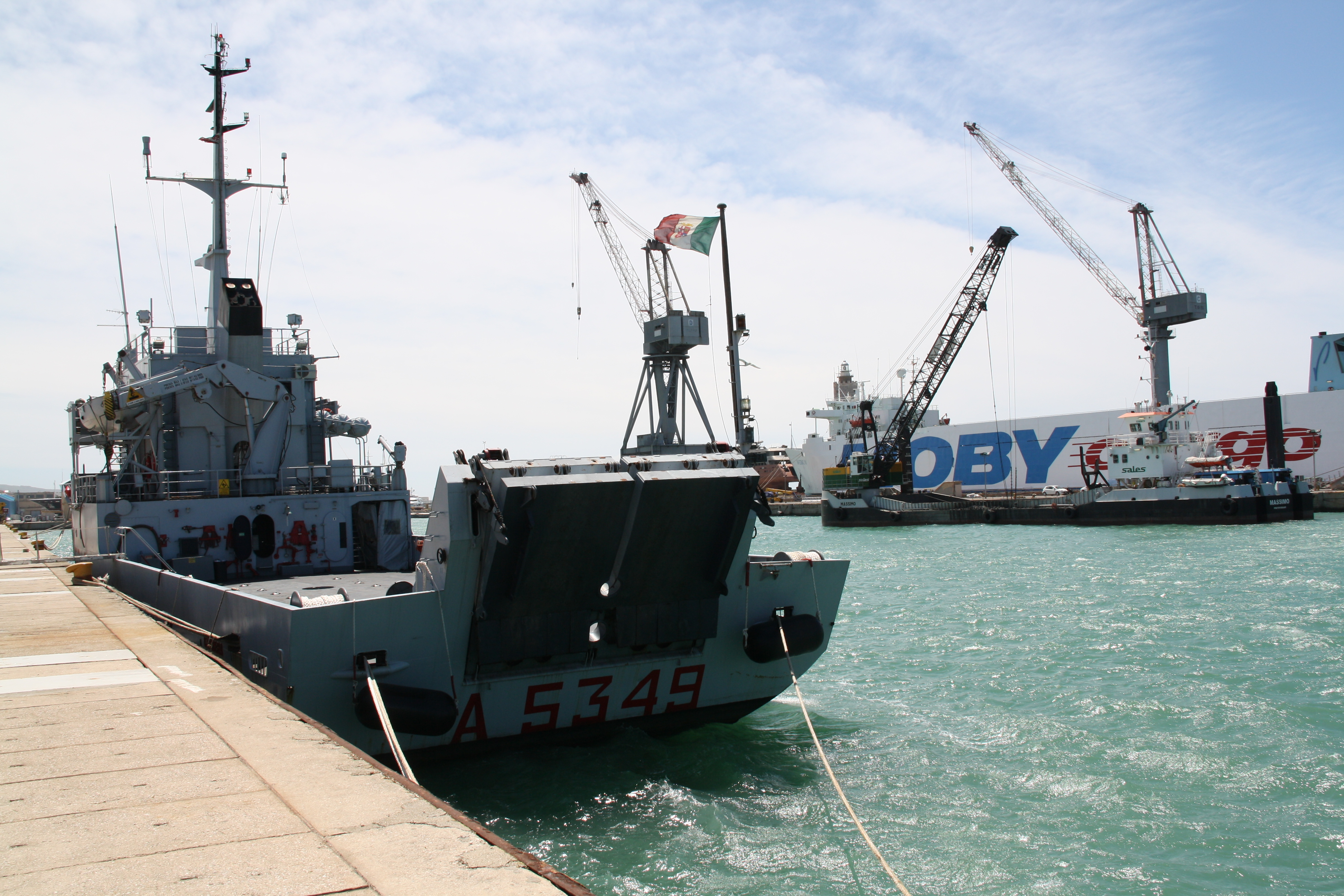 Italy, Italian Navy. The coastal transport ship Caprera (A 5349), built by Cantiere Mario Morini has been launched on November 8, 1986 as MTC 1013. On April 10, 1987 was commissioned to the Italian Navy and based at La Maddalena; from February 24, 1988 was given the current name. Starting from November 1, 2001, was assigned to La Spezia Naval Command. The ship has been designed as auxiliary logistic support and fitted with a broad loading deck. Here is berthed in the Port of Livorno at Medicean wharf.